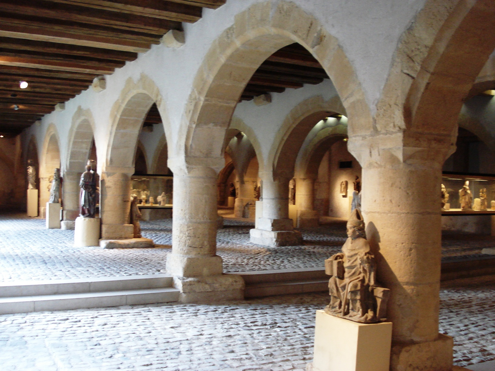 interior of Metz' museum.